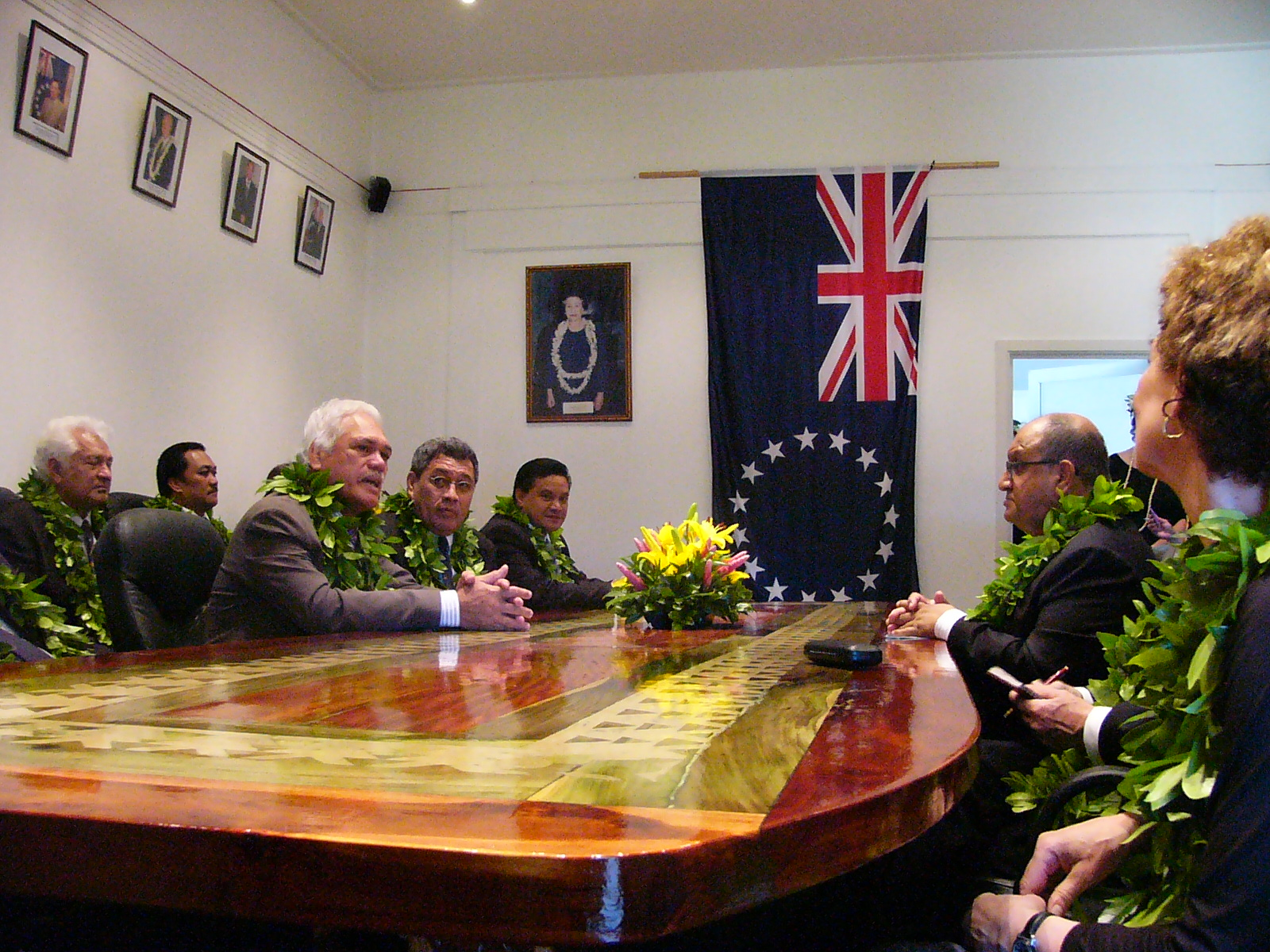 The Governor-General of New Zealand, the Hon Anand Satyanand, and Mrs Susan Satyanand, made their first formal visit to the Cook Islands in August 2007. On 23 August, they met members of the Cook Islands Government, including Prime Minister Jim Marurai (pictured centre left) and Cabinet Ministers, Hon Wilkie Rasmussen, Hon Ngaumau Munokoa and the Hon Kete Ioane.